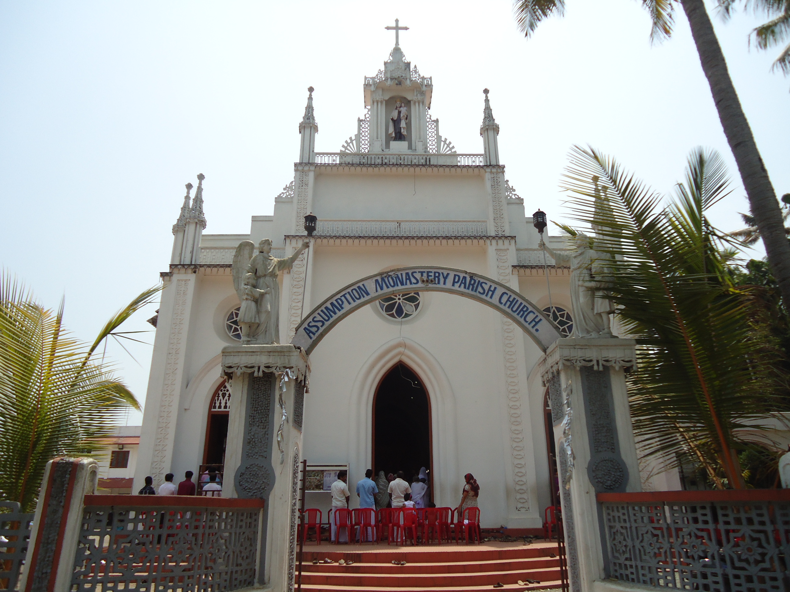 Assemption Monastry Parish Church Neeleeswaram